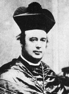 Photograph of Roger William Bede Vaughan.